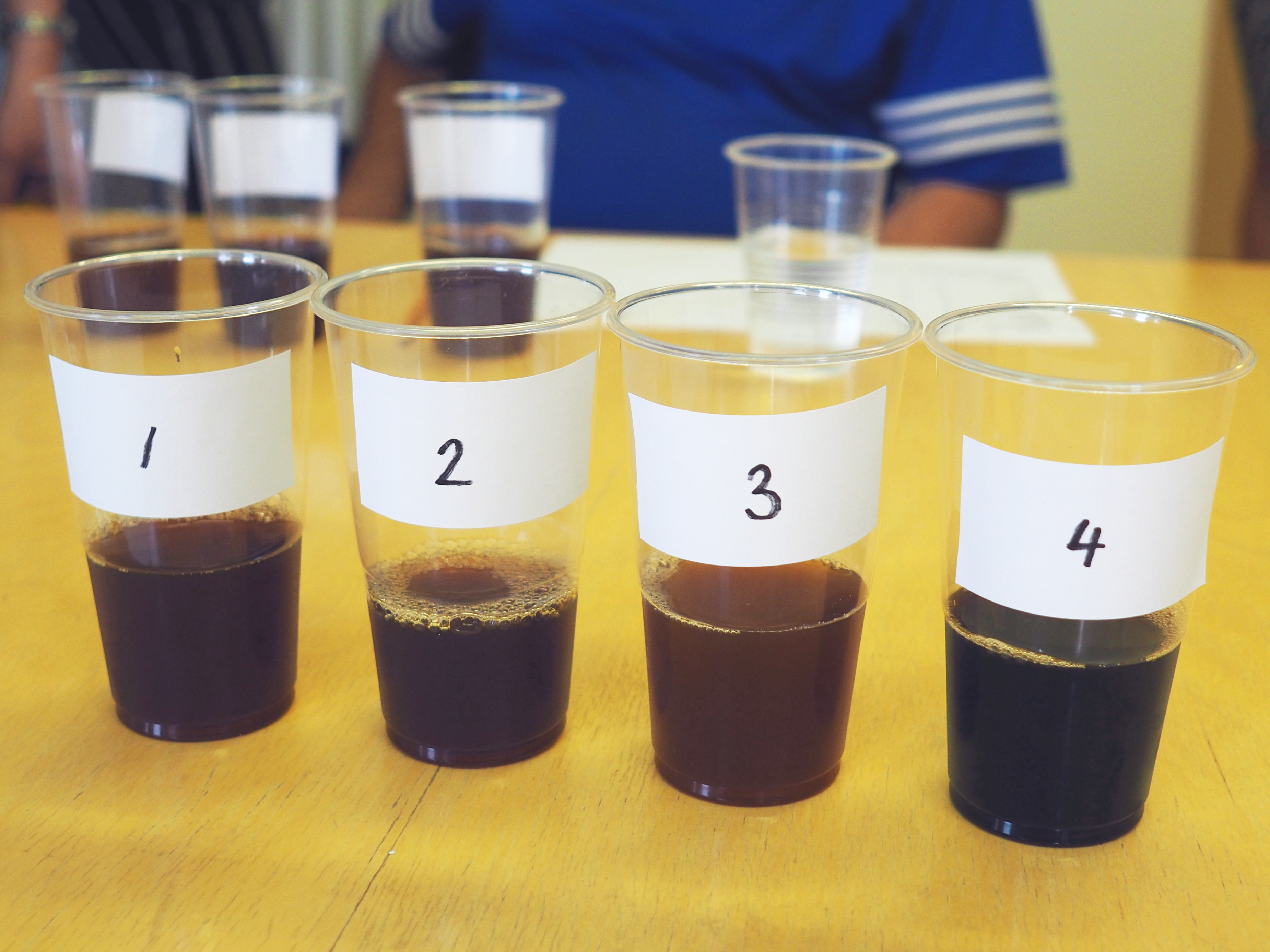 Four participants enrolled in a local sahti competition in Janakkala, 2020.